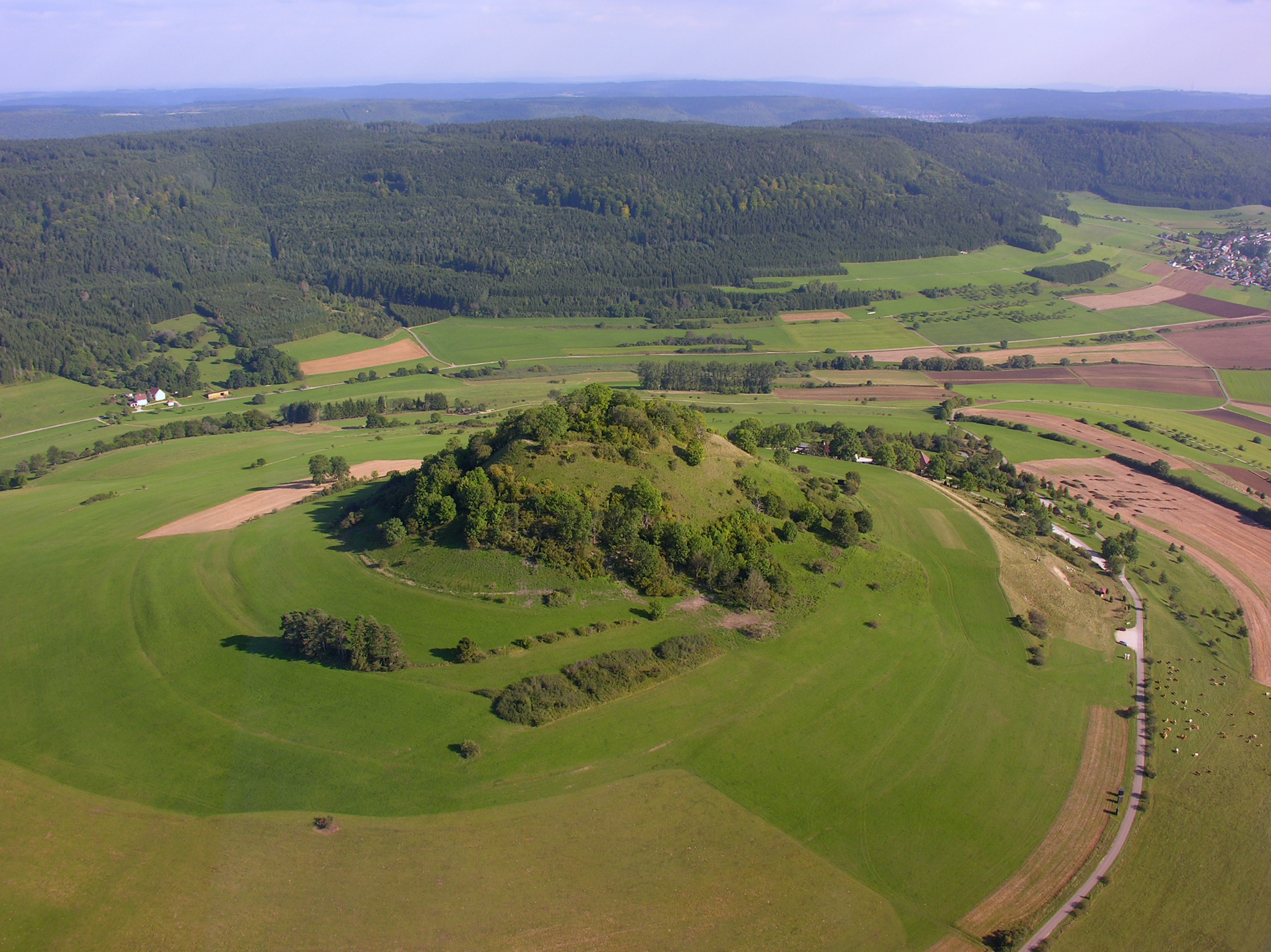 Aerial view of Hohenkarpfen in Baden-Württemberg, Germany